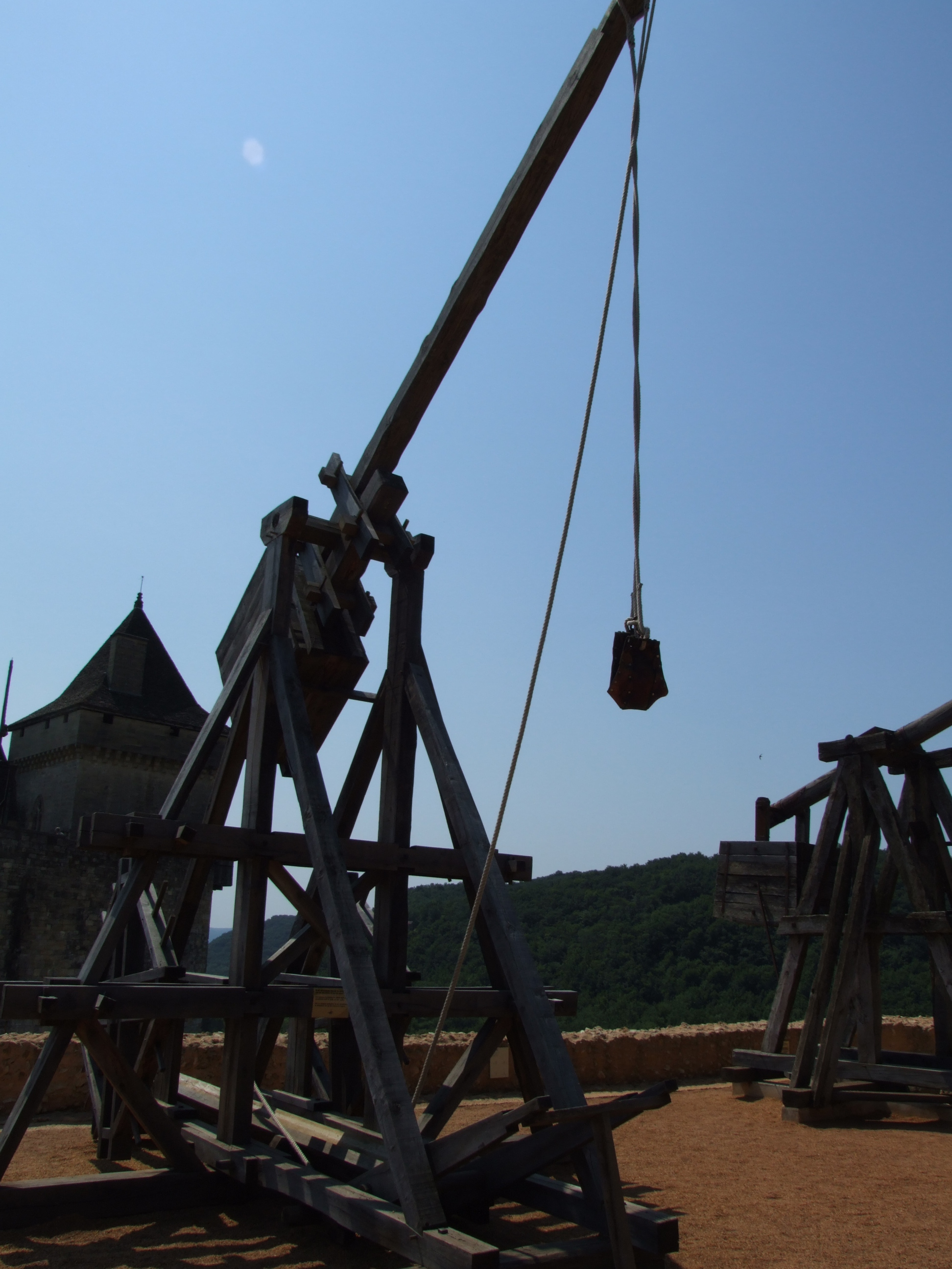 Castelnaud, Dordogne, FRANCE